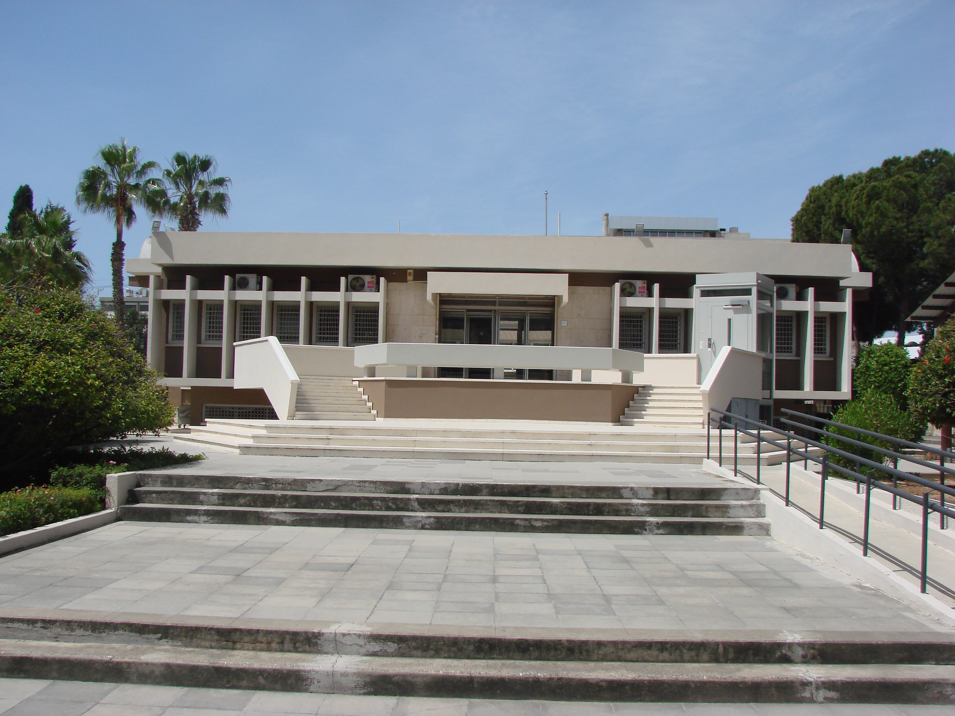 The Limassol Archaeological Museum building.